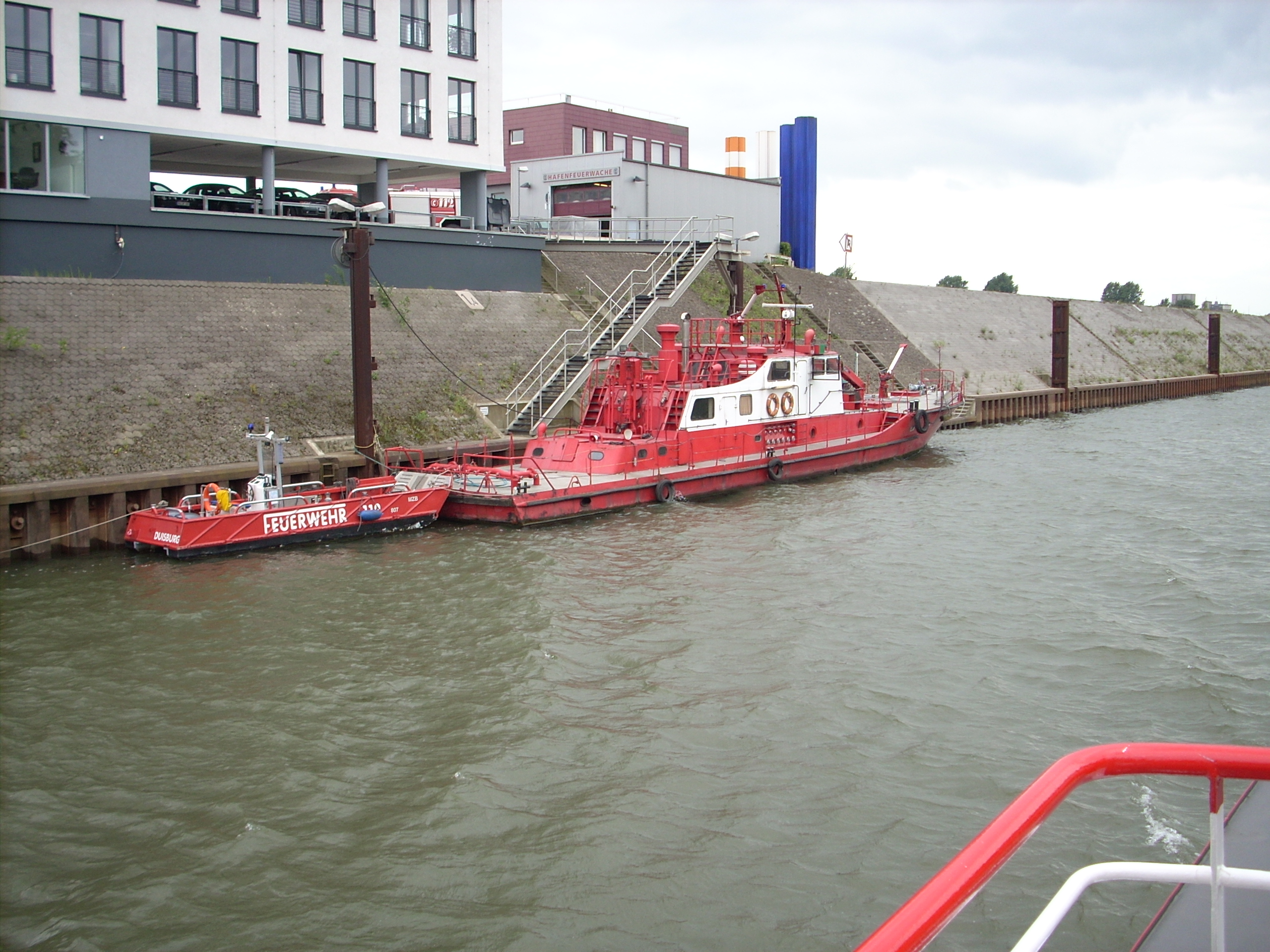 A fire boat of the Fire Brigade Duisburg.